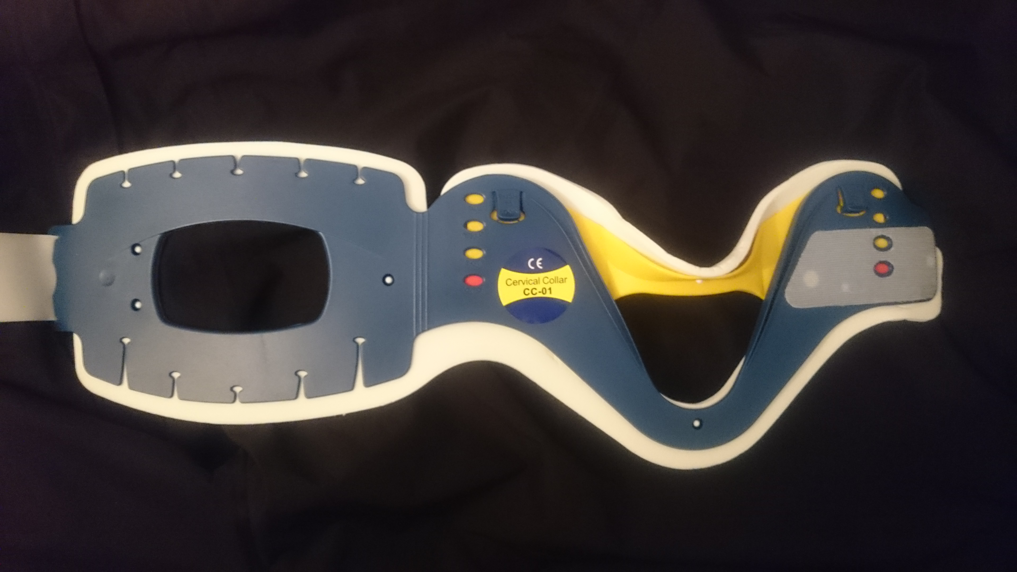 Cervical collar, adujstable adult size (face view).